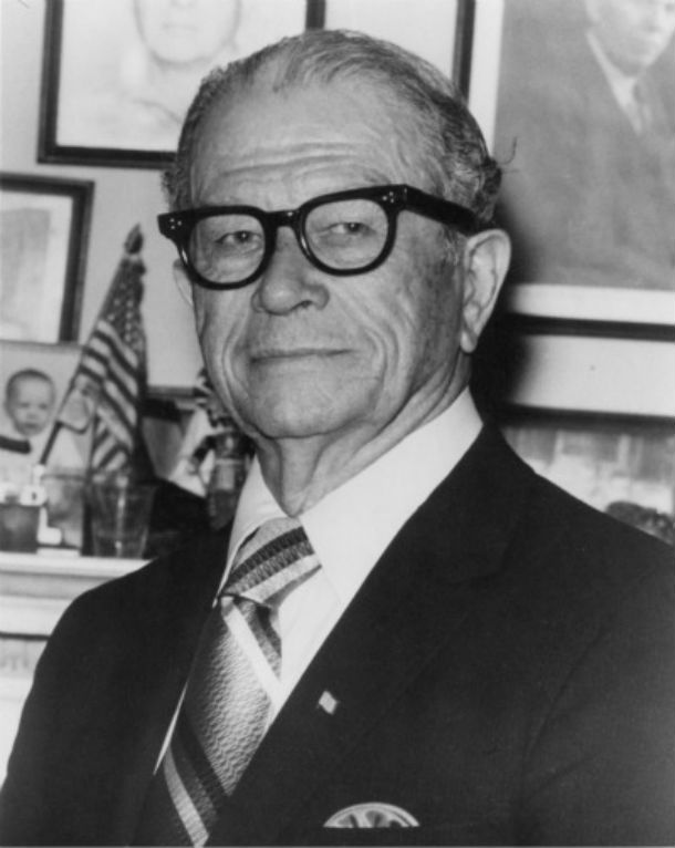 United States Senator Allen J. Ellender (D–LA)